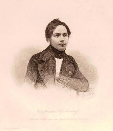 Konstantin von Tischendorf (1815–1874), German theologian, around 1845